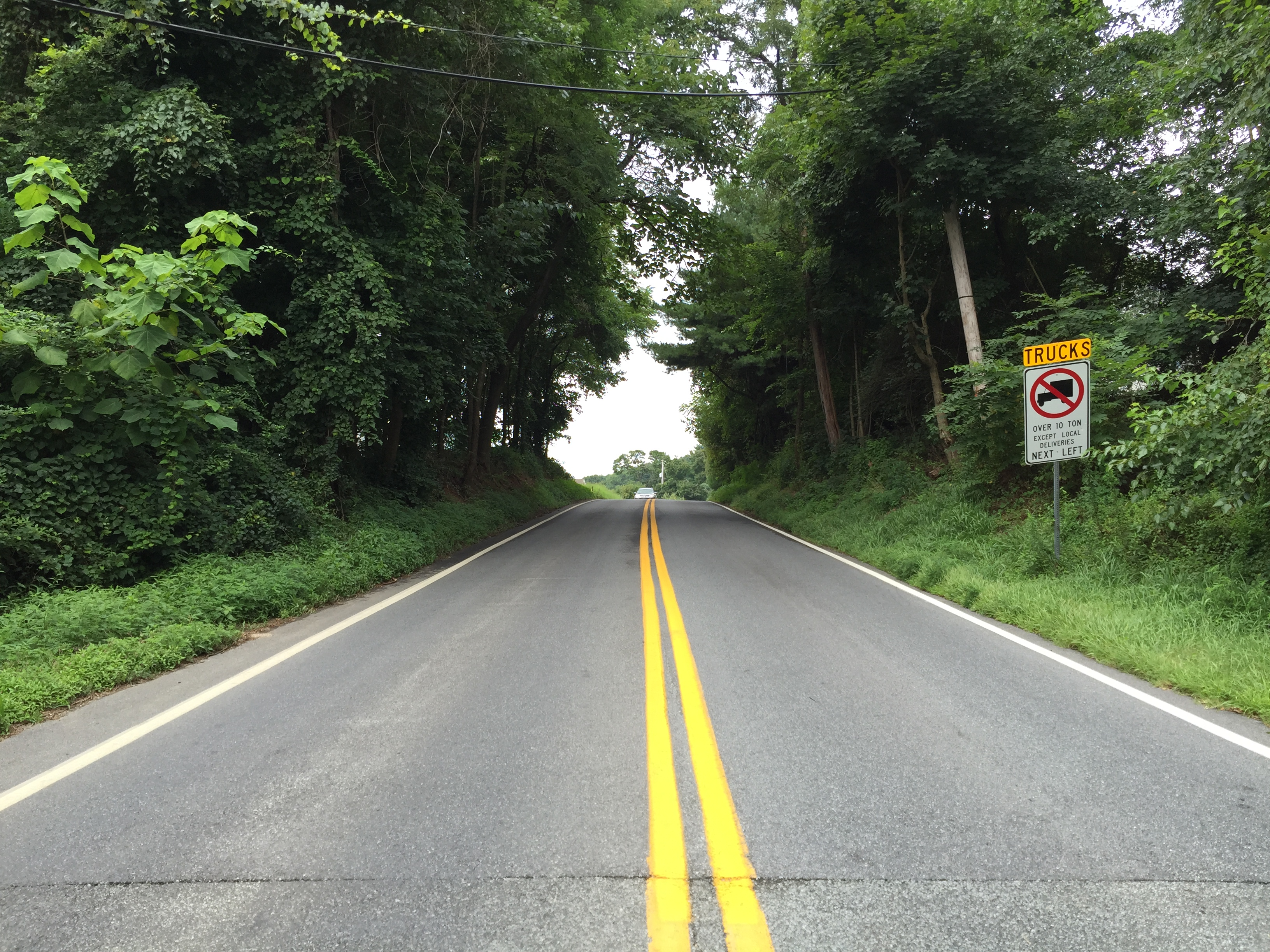 View north at the north end of Delaware State Route 896 and the south end of Maryland State Route 896 (New London Road) crossing from Mechanicsville, New Castle County, Delaware into Glen Farms, Cecil County, Maryland